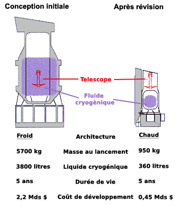 Cryogenic Architecture of the SIRTF (french labels)